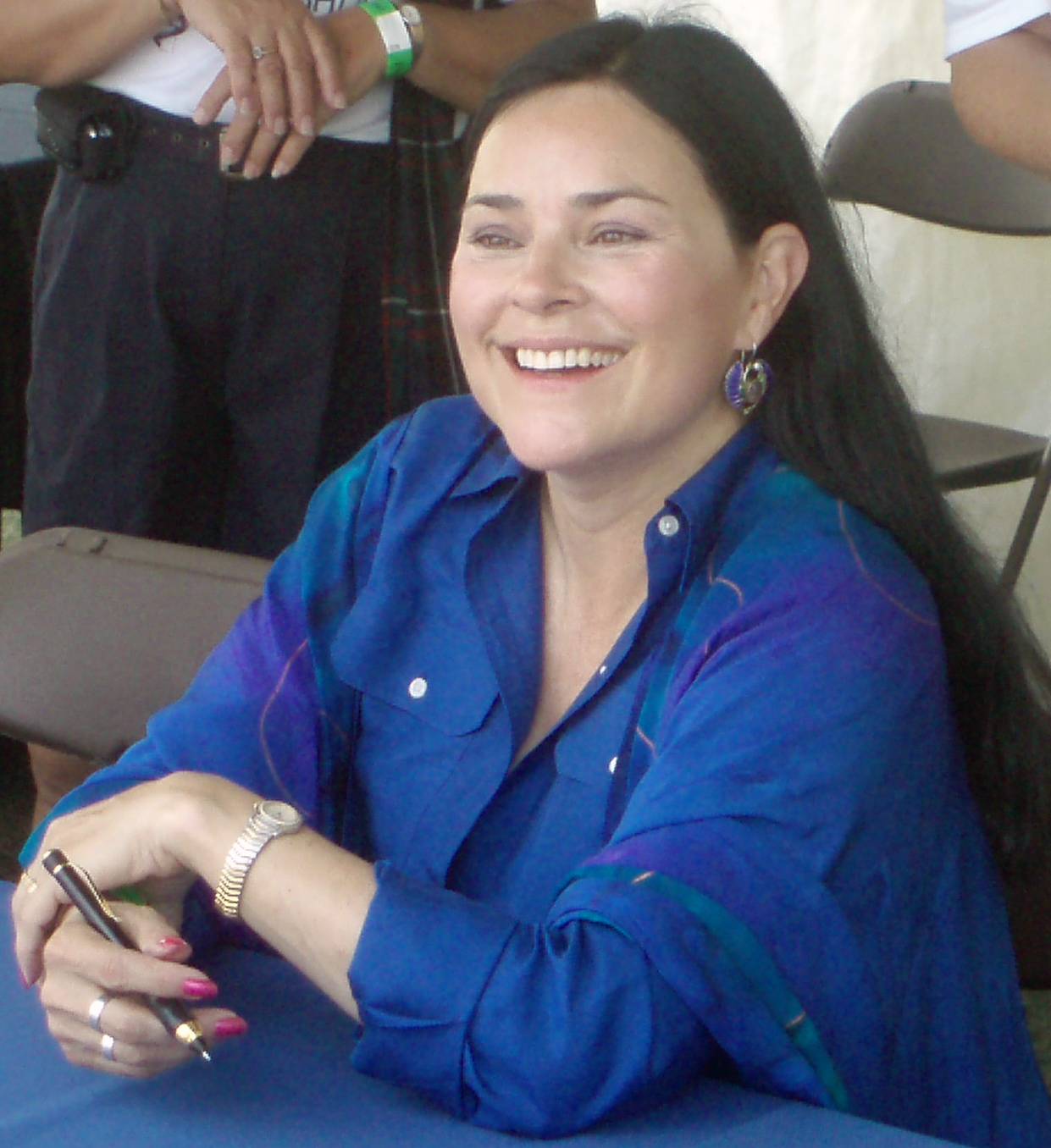 Picture of the author Diana Gabaldon during a book signing held in Fergus, Ontario (during the Scottish Festival) on August 11, 2007.